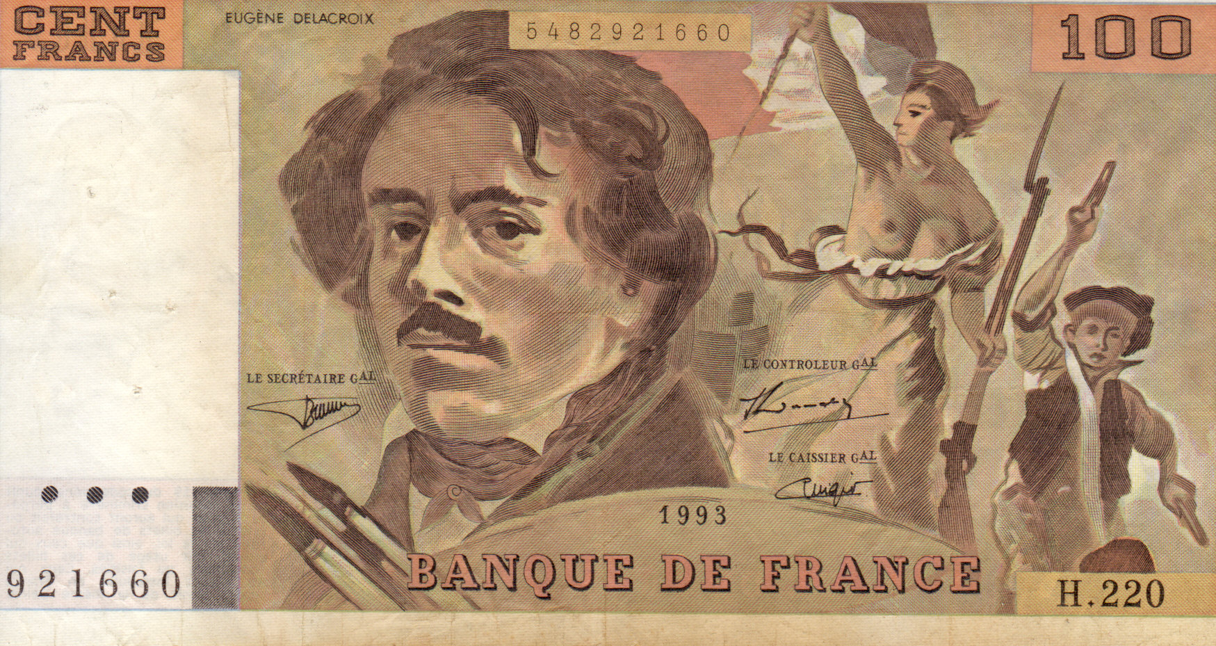 100 Franc note with Eugène Delacroix likeness, 1993. Since a like image of this banknote can be found at under the auspices of , this indicates that there is no prohibition against reproducing french banknotes.